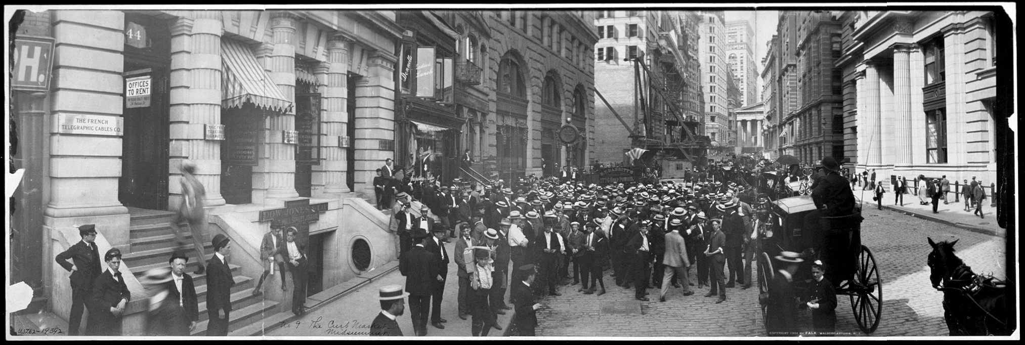 Curb market at Broad Street. It later became the American Stock Exchange. In the background there's the NYSE building under construction.